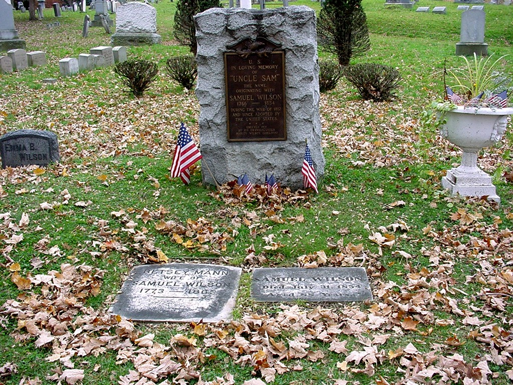 Grave of Samuel Wilson and his wife in Oakwood Cemetery in Troy, New York, United States. Sam Wilson is a possible source of the name Uncle Sam.